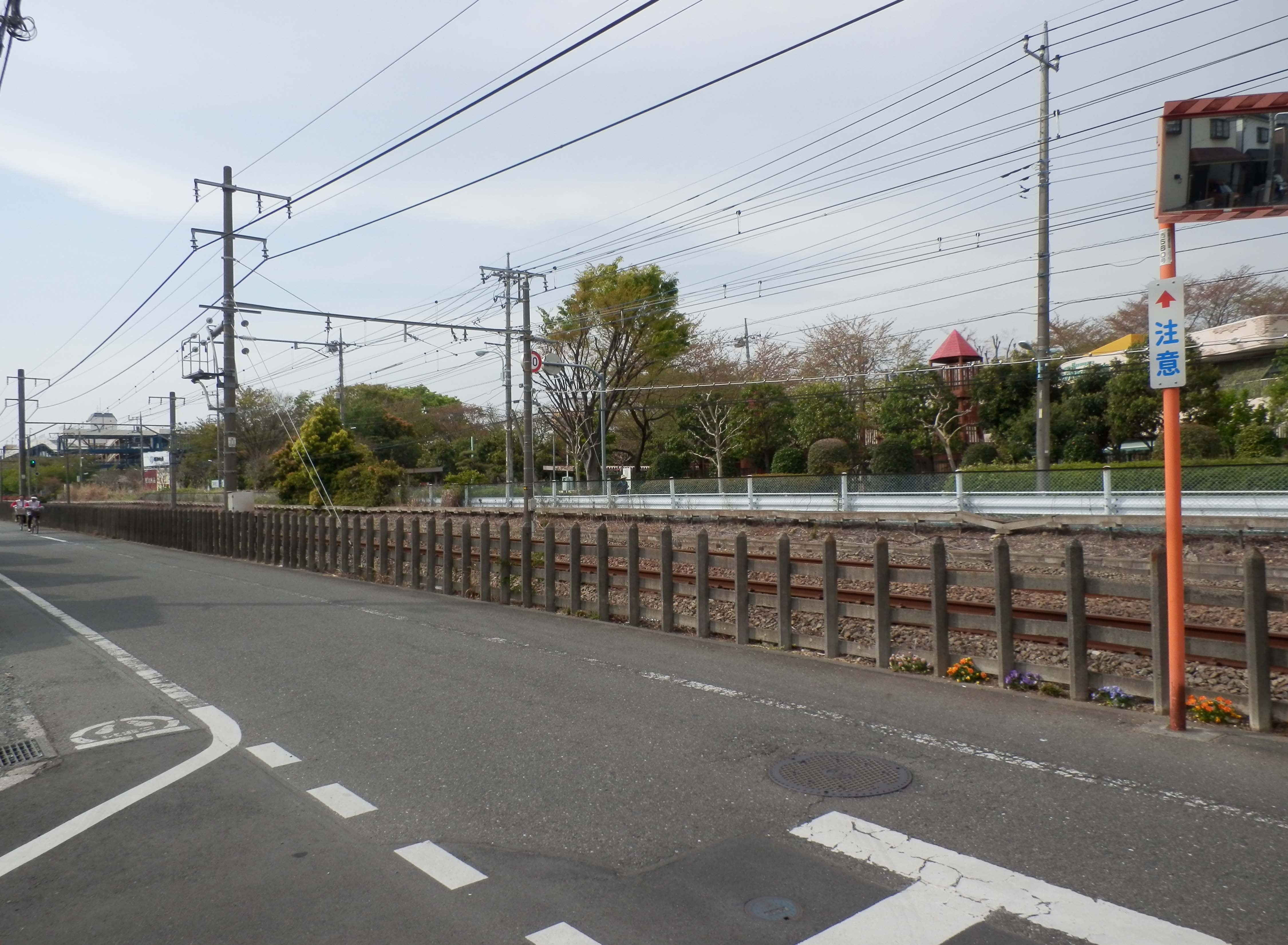 Japanese Ōme Line between Akishima Station and Nakagami Station where Pachinko Gundam Station was in iOS Map application.